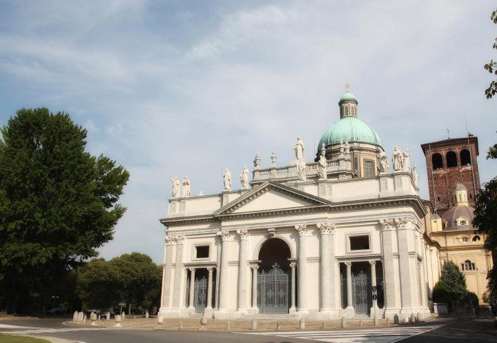 Duomo di Vercelli